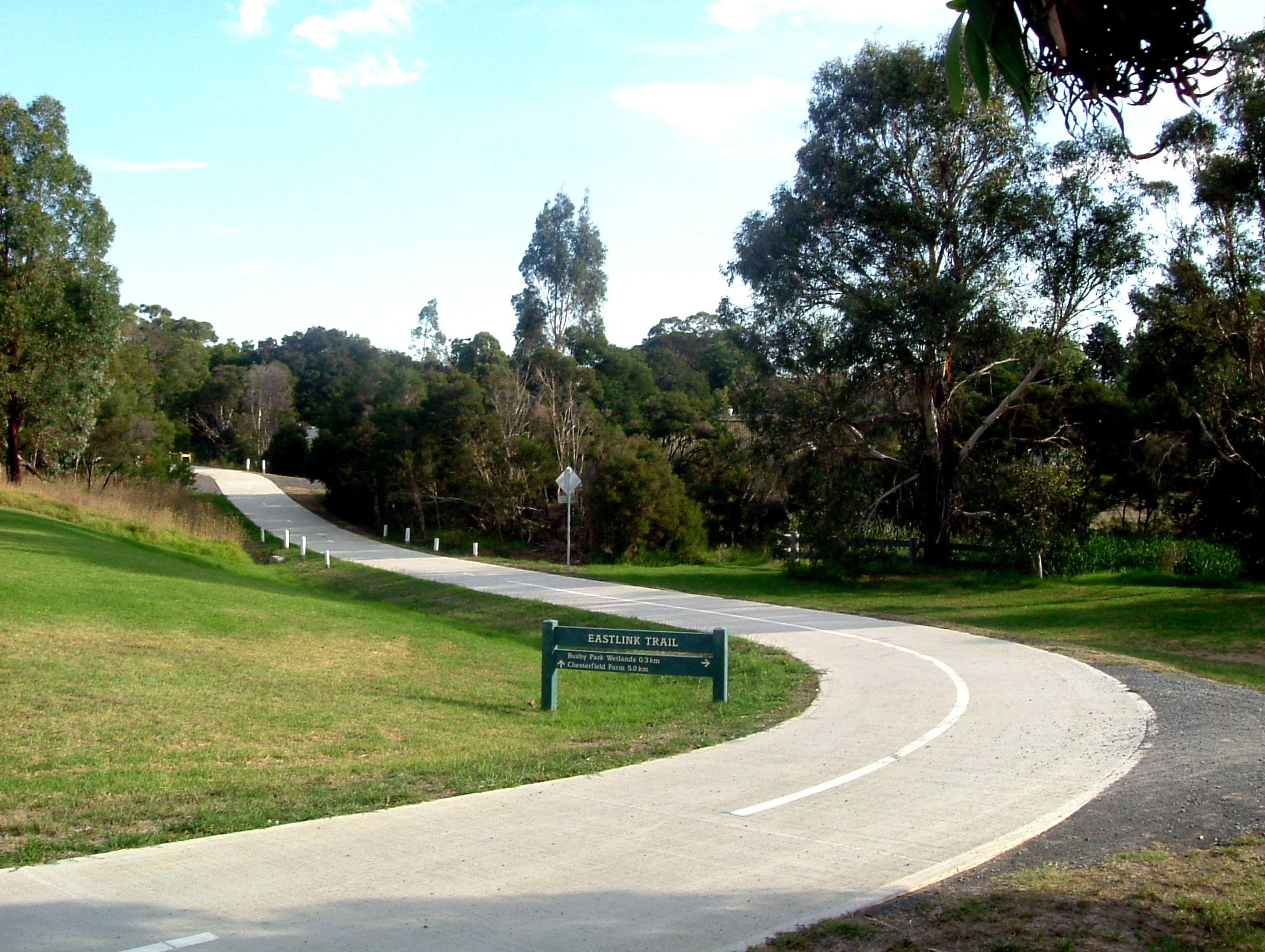 Photograph of the EastLink trail, a shared use path located in Koomba Park. Can be used for any purpose for any reason.